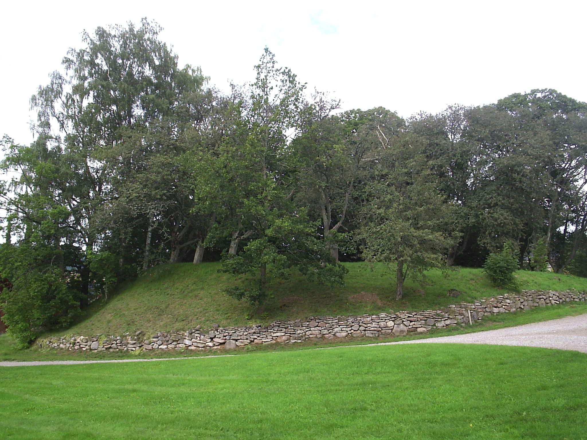 Photo by Harri Blomberg.